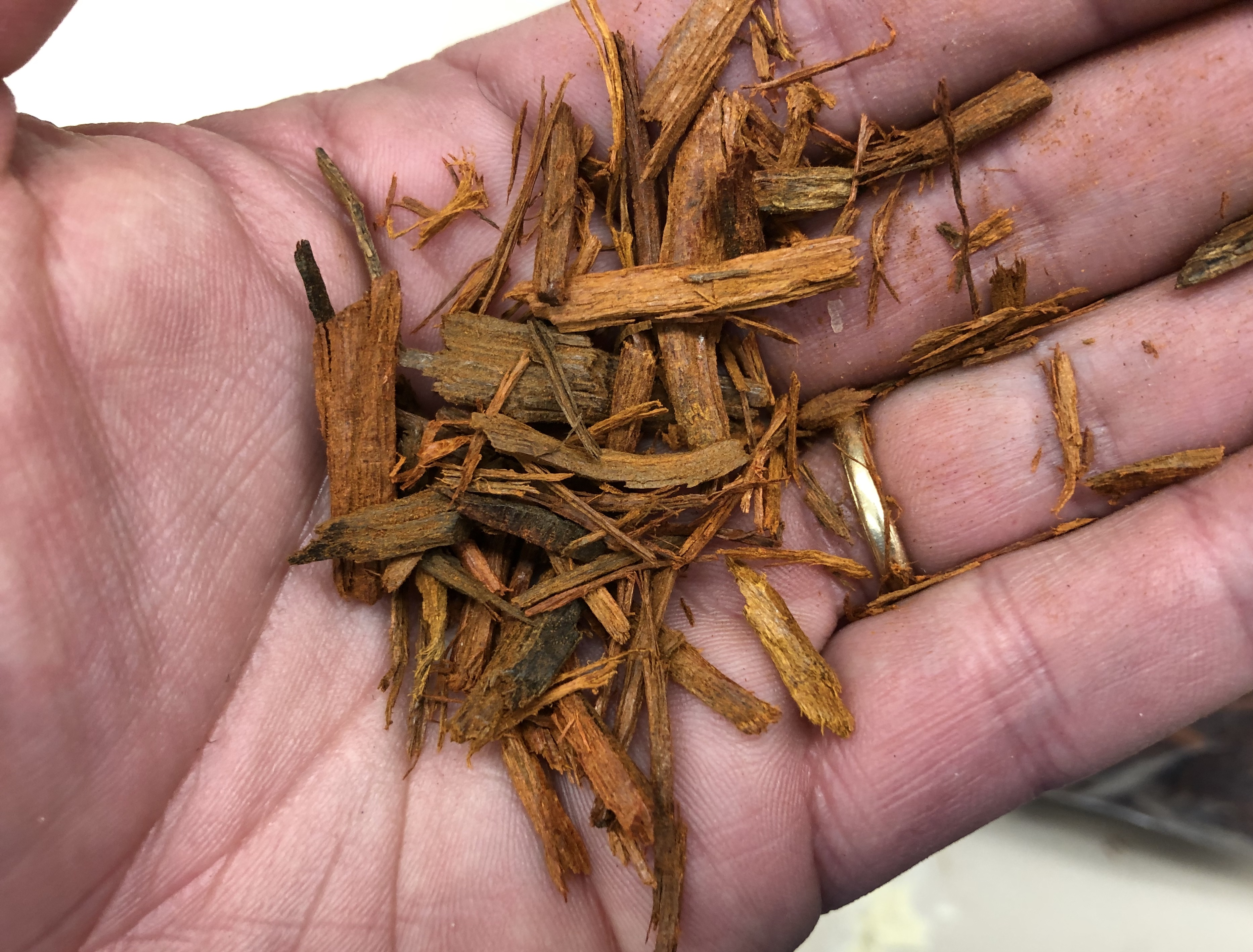 Haematoxylum campechianum ( wood chips Wood from this try is used to make the common histological stain Haematoxylin (